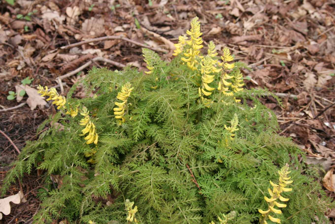 Corydalis cheilanthifolia: Habitus.